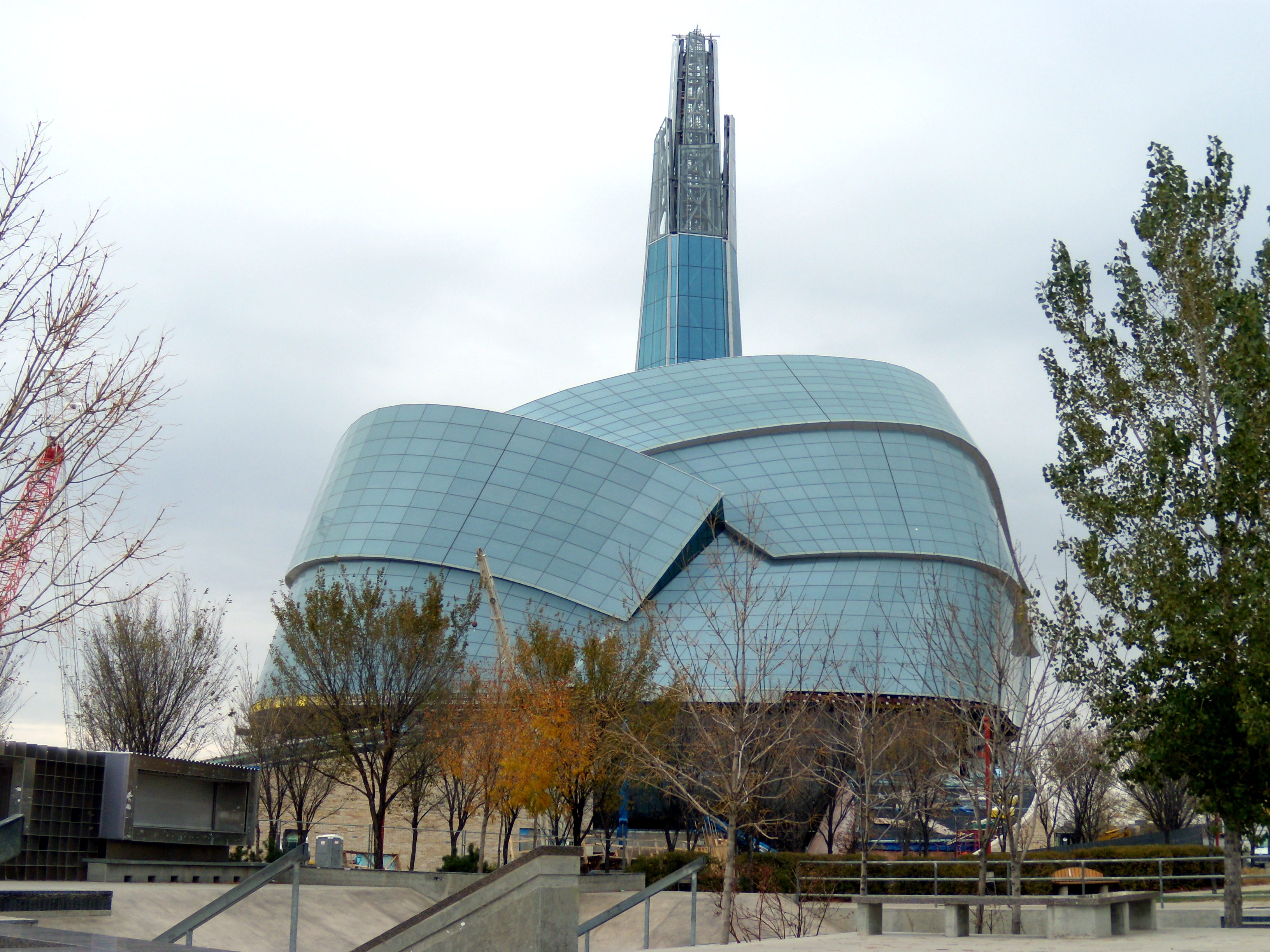 Canadian Museum for Human Rights, October 2012